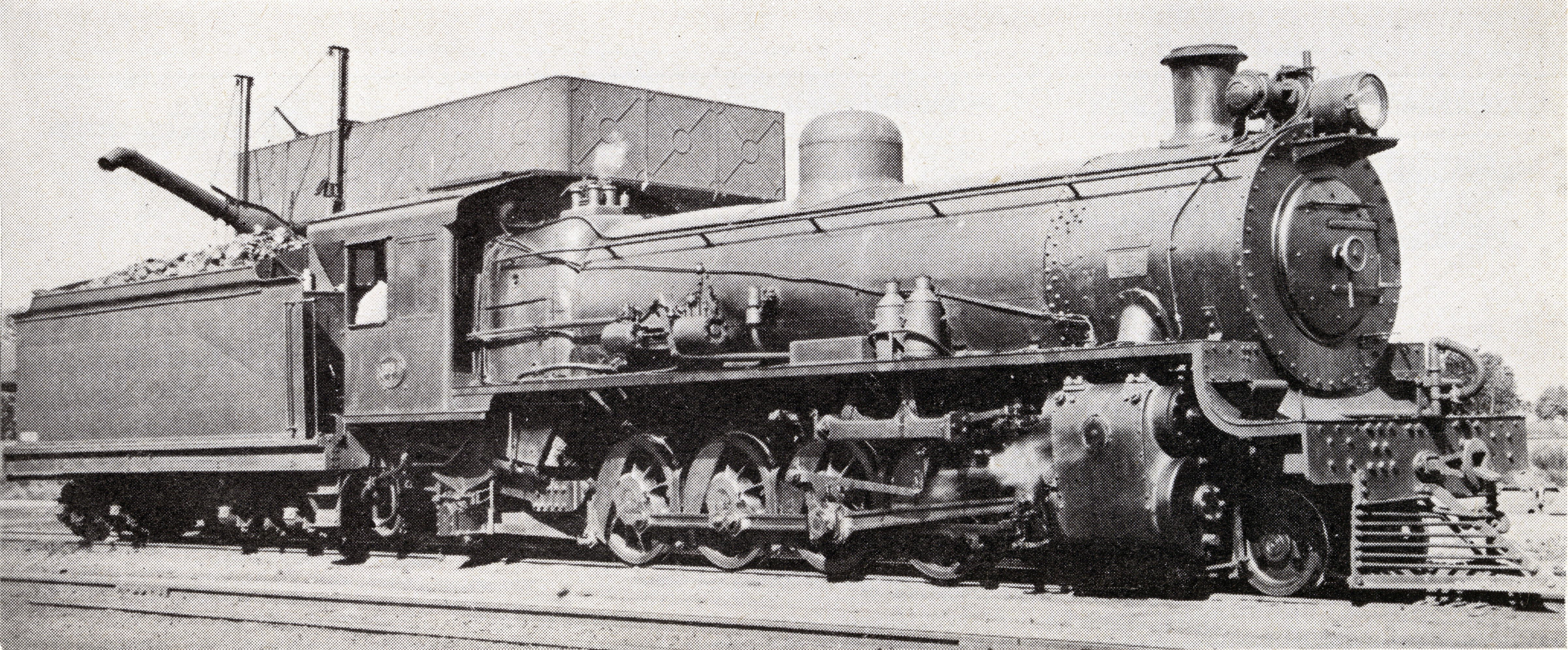 South African Railways Class 14C no. 1894, second batch, at De Doorns